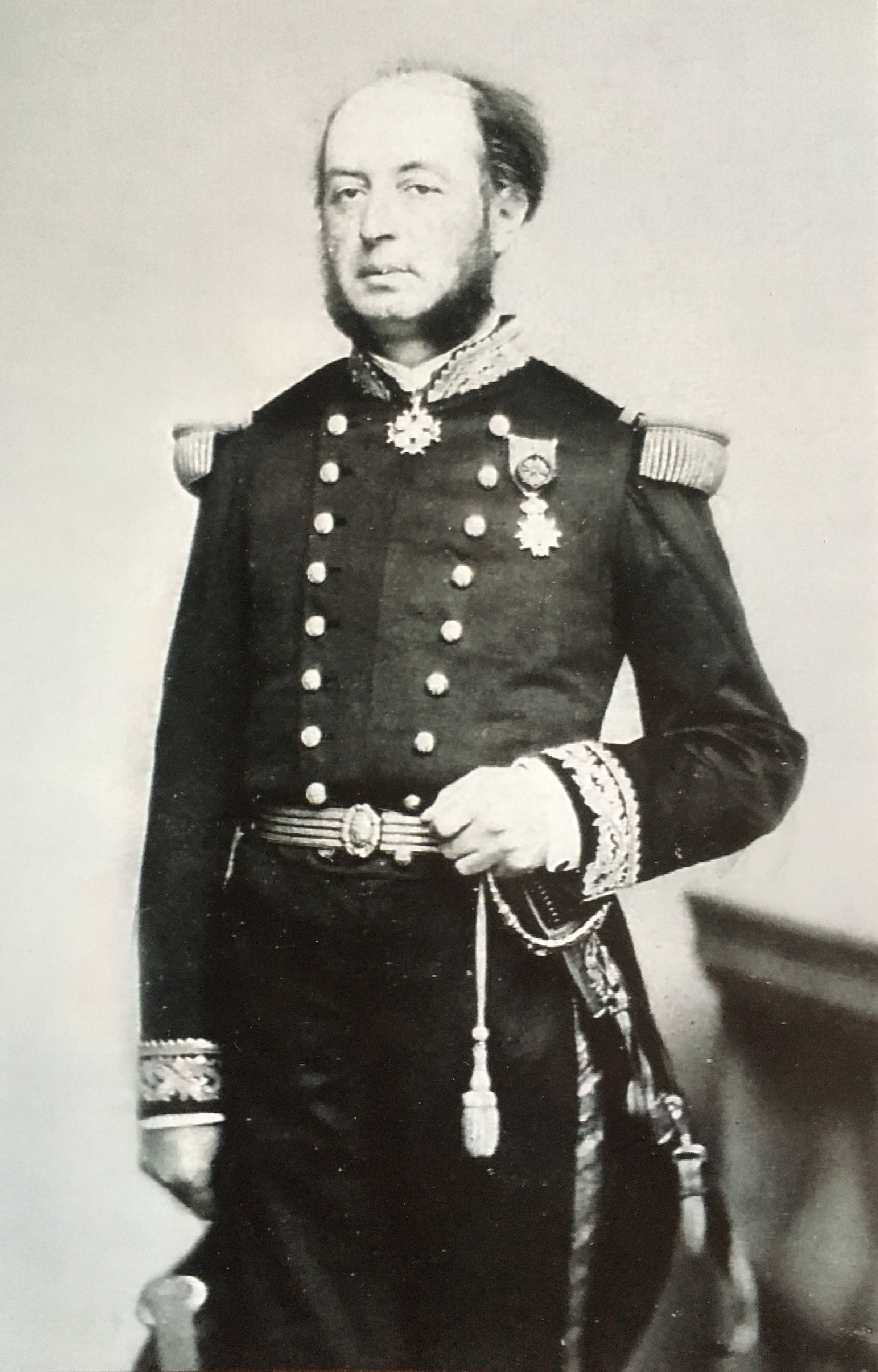 Dumas-Vence, C.-J.